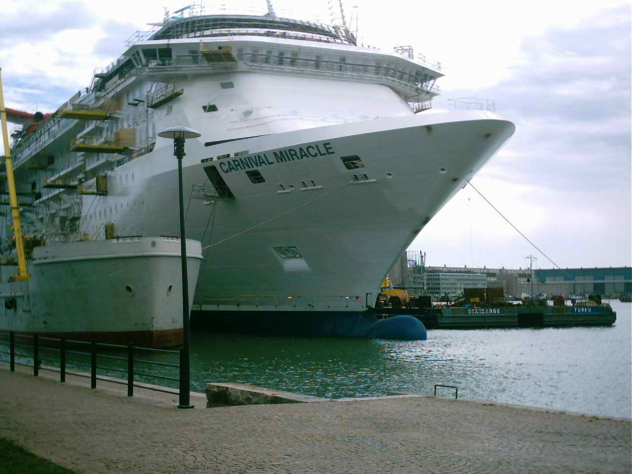 Cruise ship Carnival Miracle under construction at Kvaerner Masa-Yards in Helsinki 16 June 2003